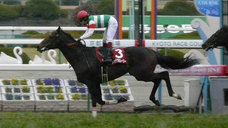 To-the-glory20120115(1)